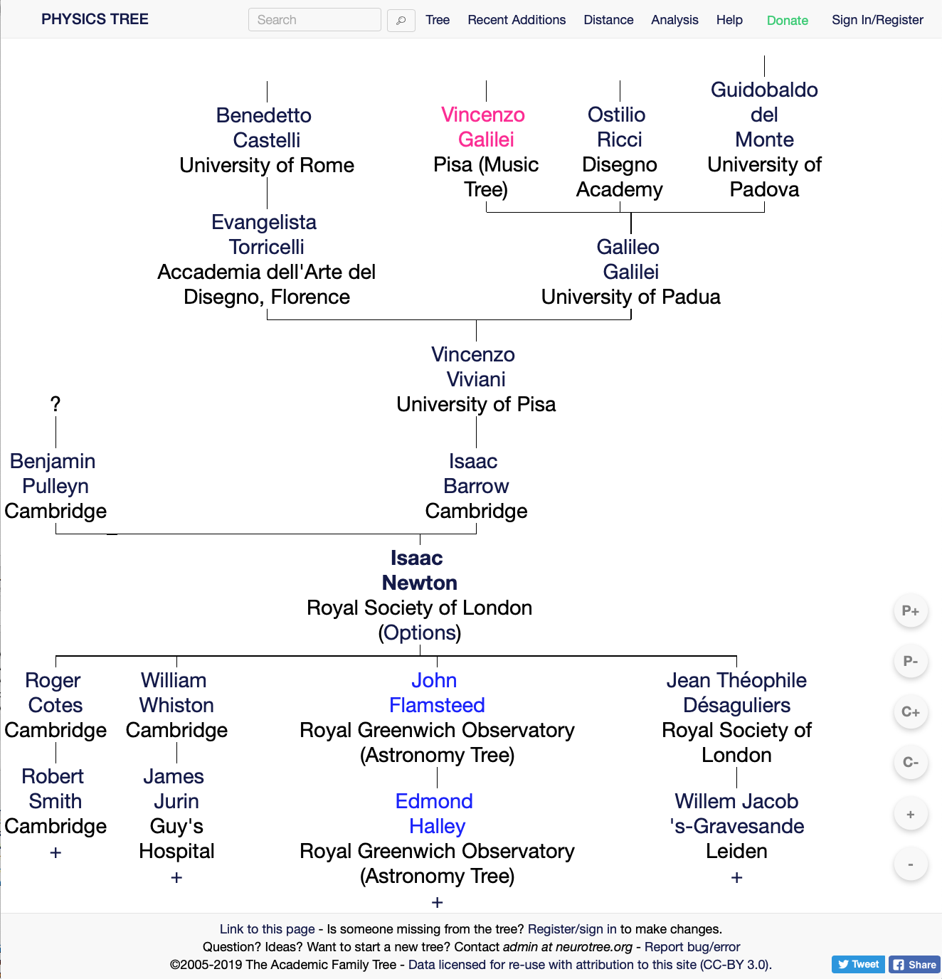 Revised academic genealogy of Isaac Newton from Academic Family Tree